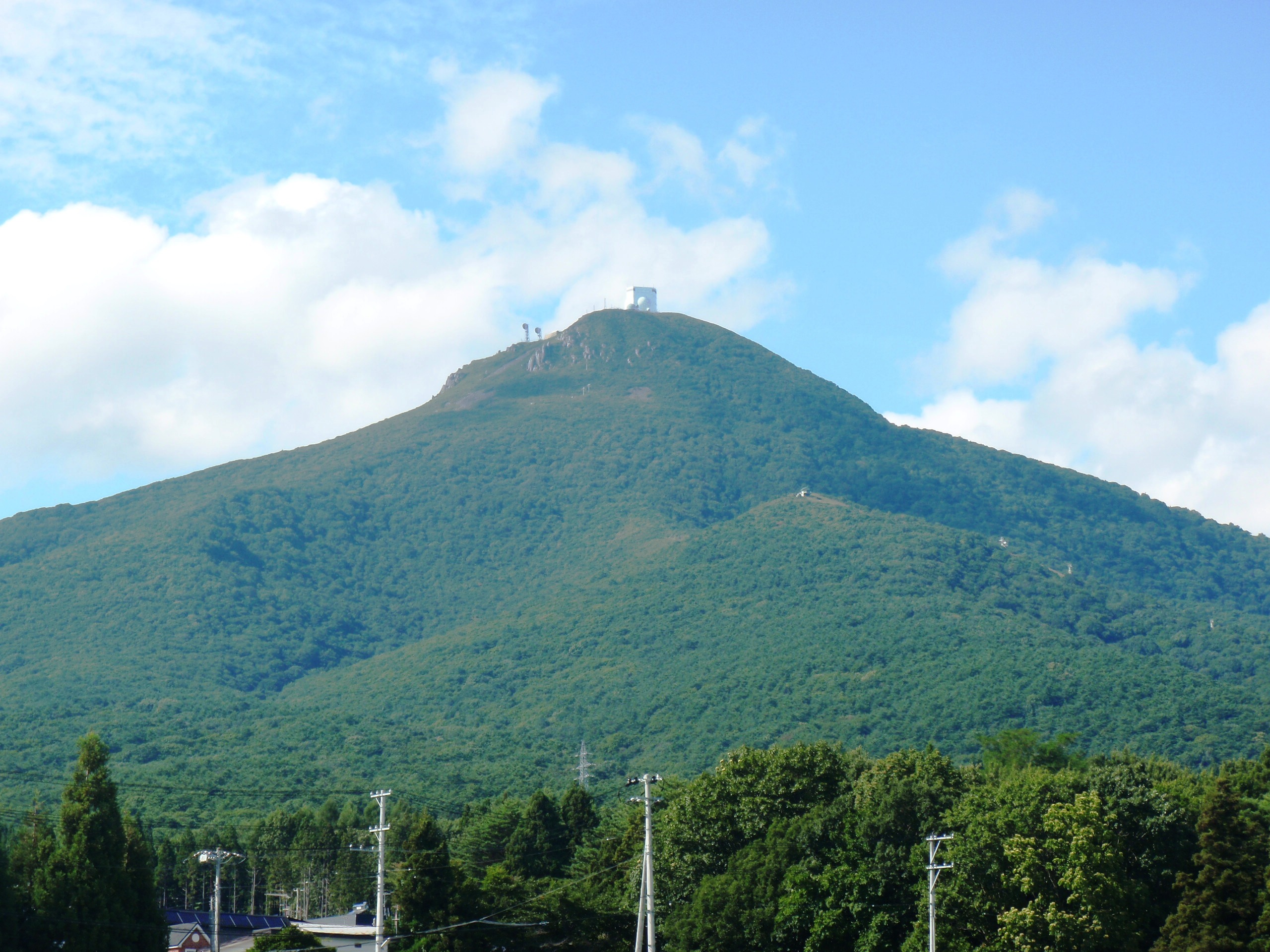 Mount Kamafuse as seen from the SSE in Aomori Prefecture Japan.